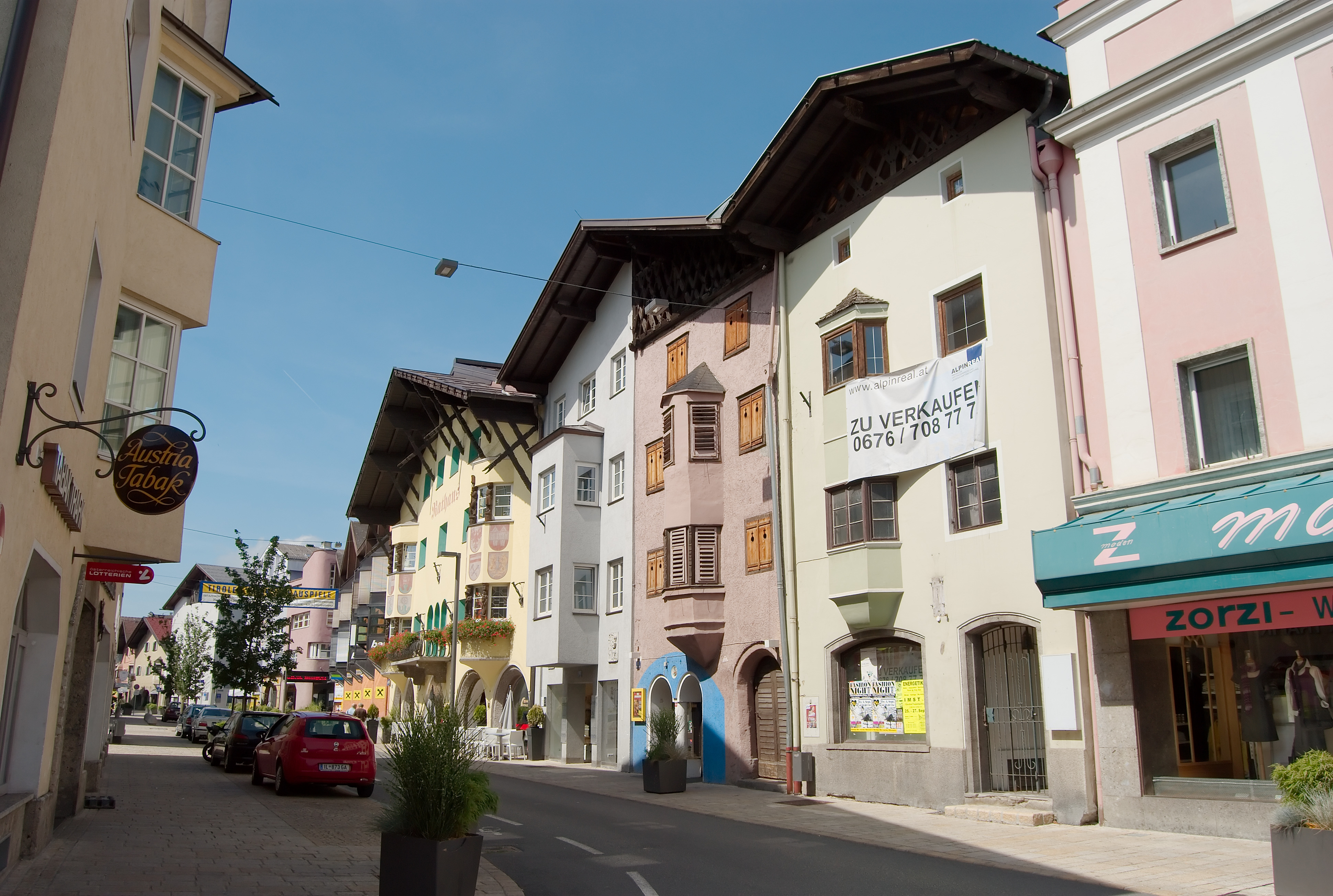 Untermarktstrasse in Telfs